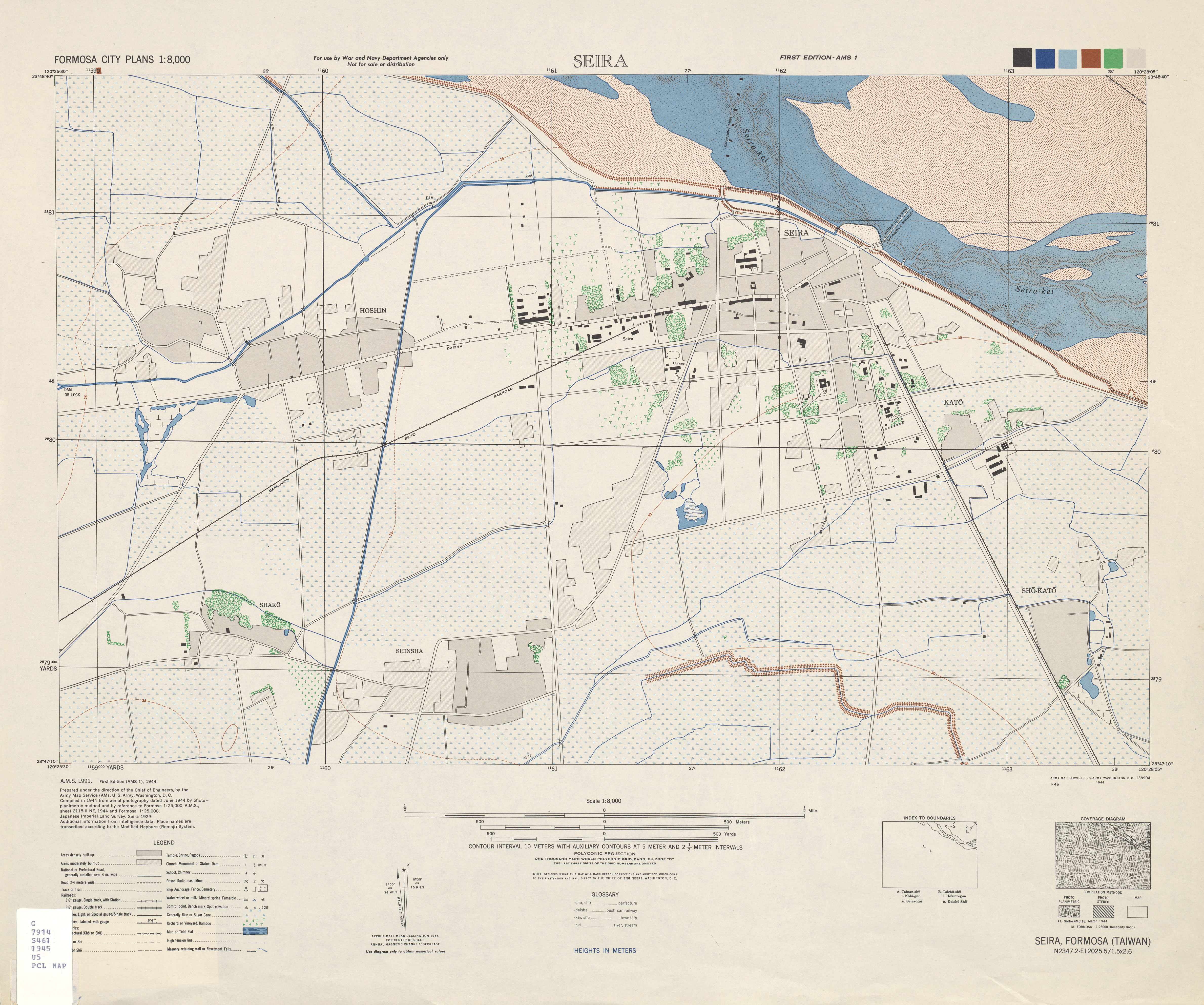 Seira 1:8,000 1945